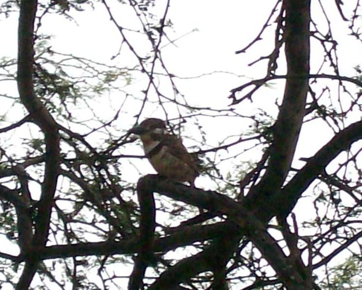 The Russet-throated Puffbird Hypnelus ruficollis is a near-passerine bird which breeds in tropical South America in northeastern Colombia and much of Venezuela, This photo was taken near the camp of the Coal Mine Cerrejón in La Guajira, Colombia.